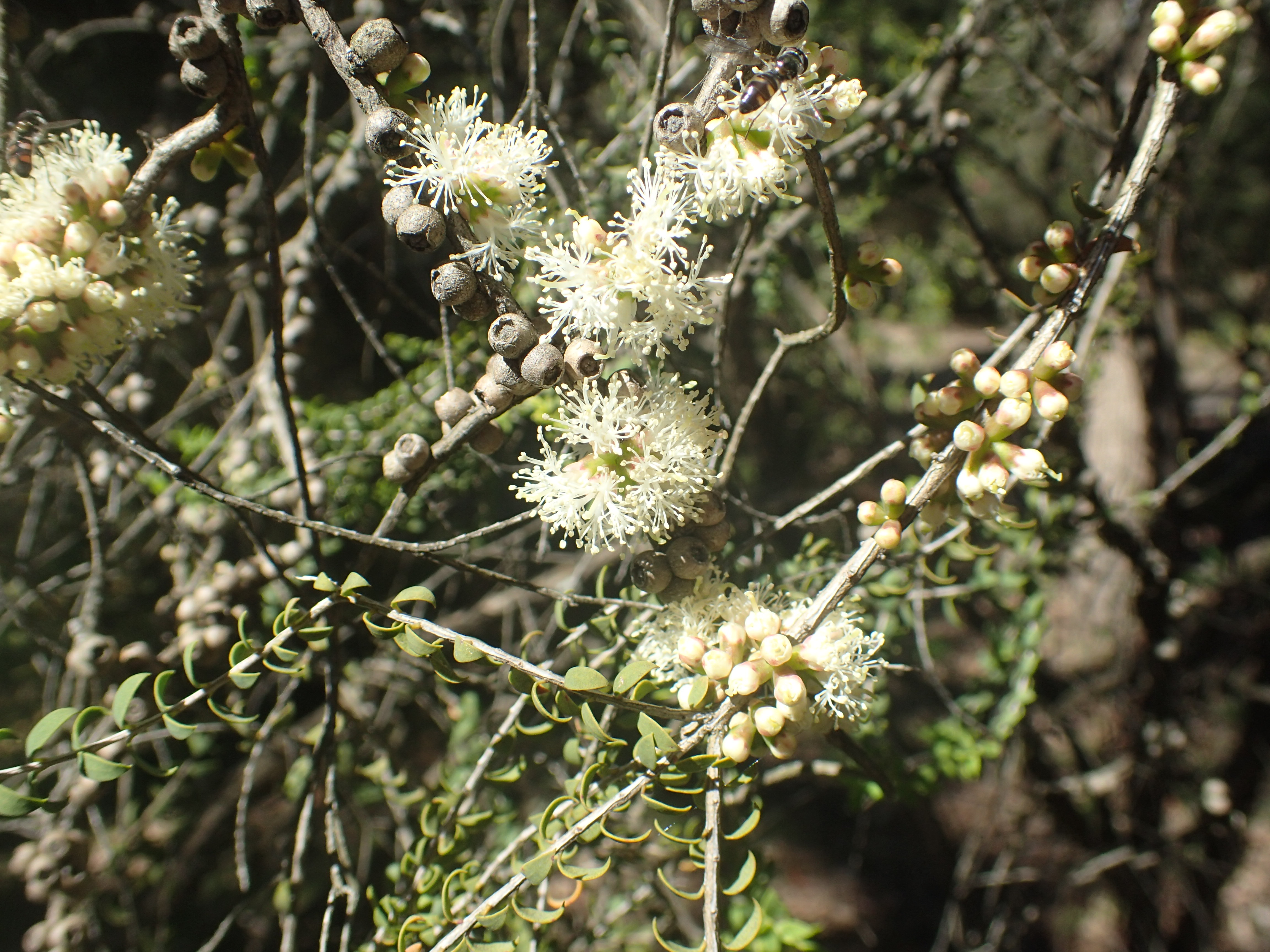 Melaleuca lanceolata foliage, flowers and fruit